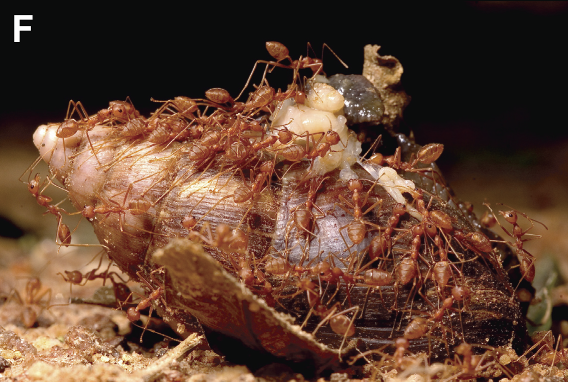 Red weaver ants (Oecophylla smaragdina) gathering to feed on a dead African giant snail (Achatina fulica) (Photo:Narasha Mharte).